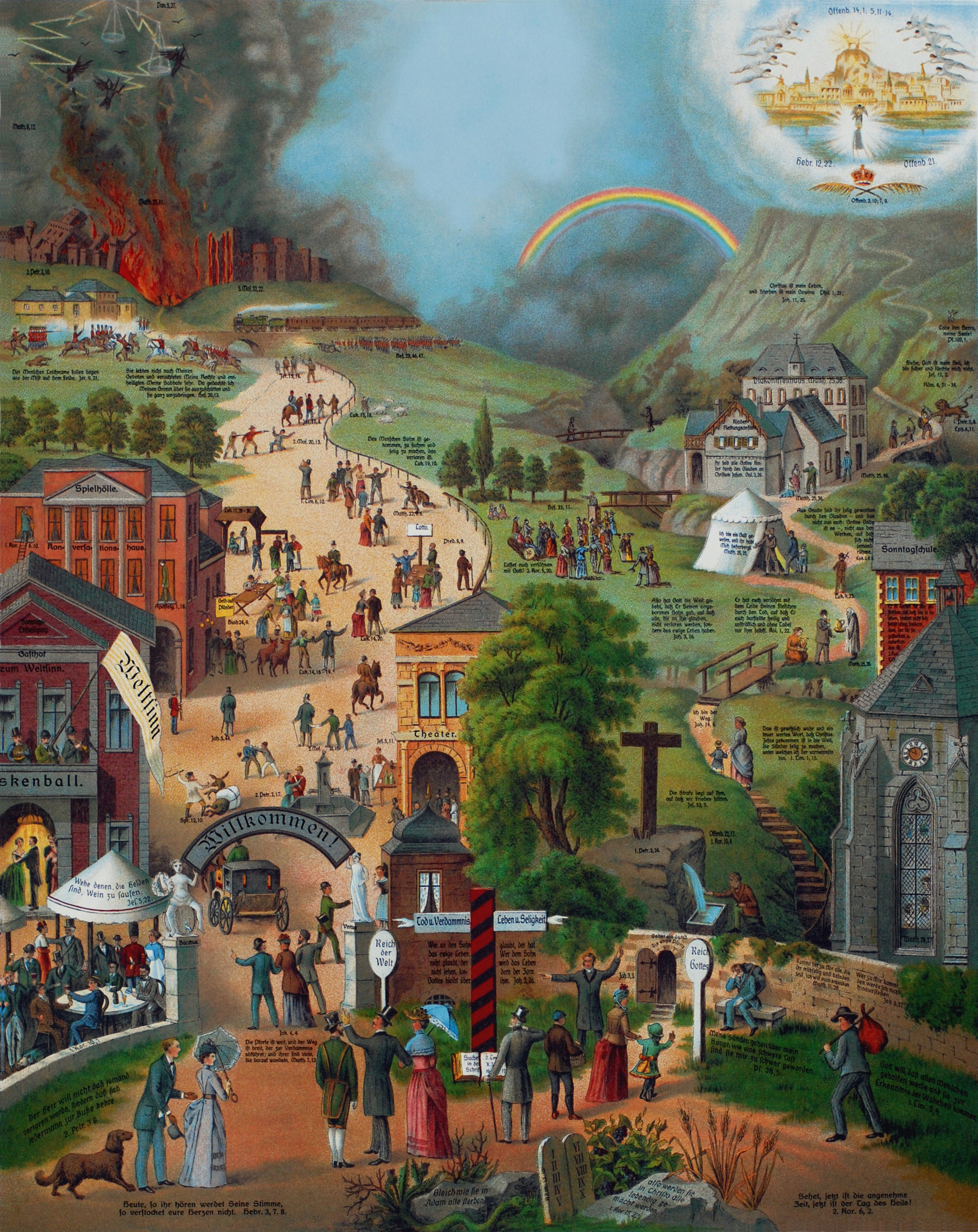 The broad and the narrow path, by Charlotte Reihlen (idea) and Paul Beckmann (execution), poster version as sold by Johannis-Verlag in 2008. Biblical passages according to the Luther Bible of 1984. The original eye of providence was retouched in this version.